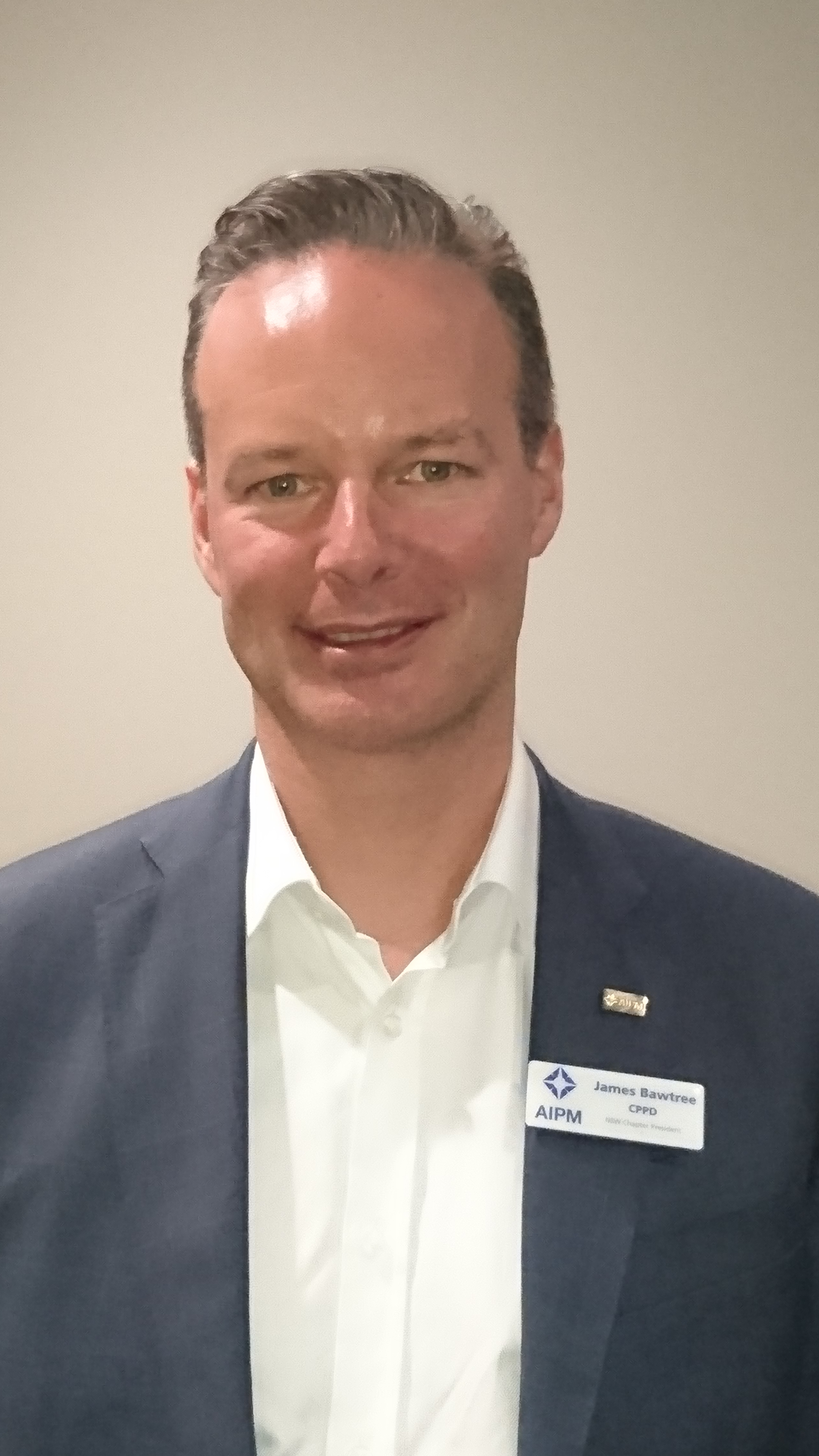 Mr James Bawtree is the AIPM NSW President. Photograph taken 2019-05-19 at an AIPM meeting in Canberra.